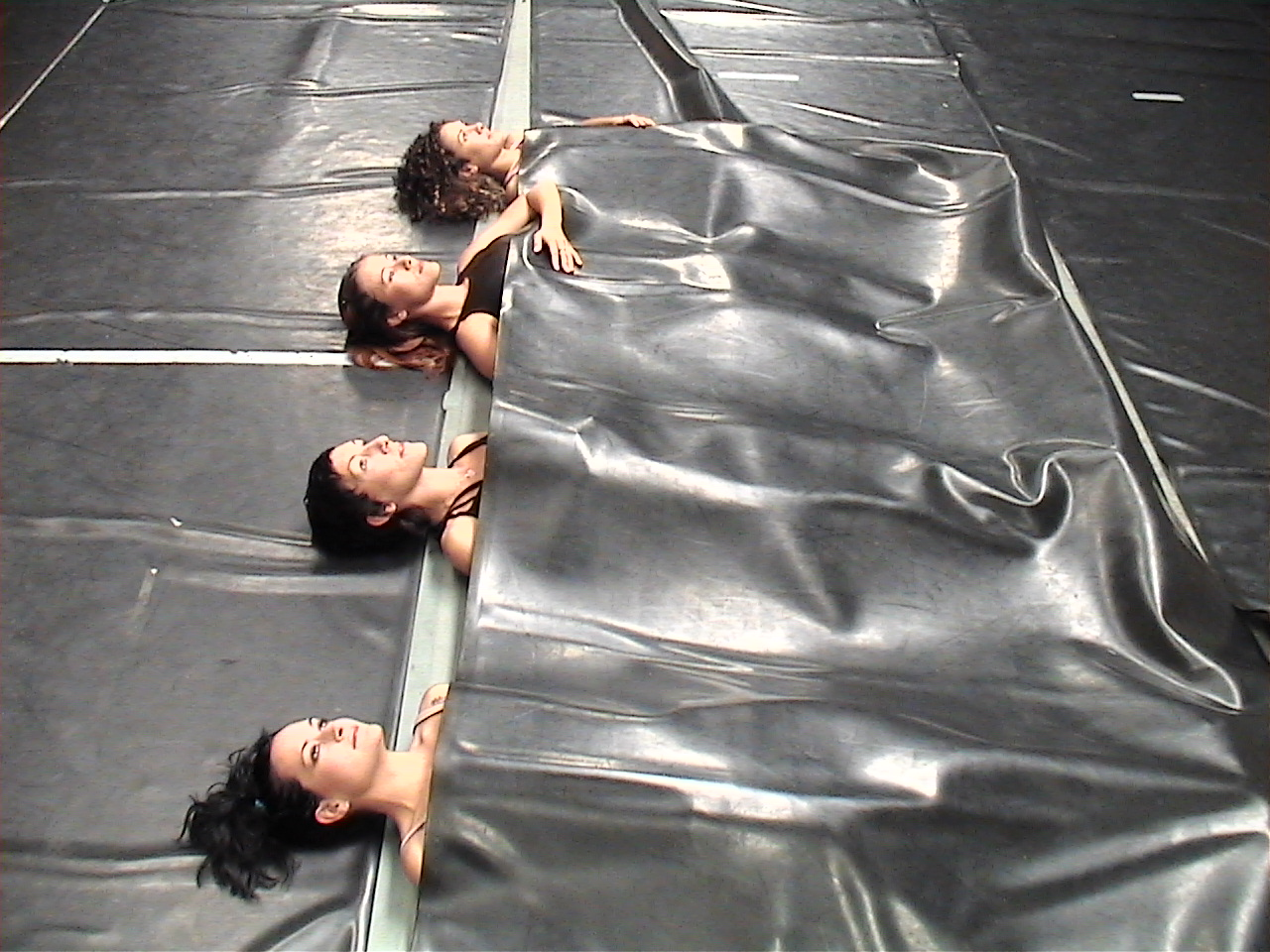 A performance by the modern dance company "Compañía Bytedanza."